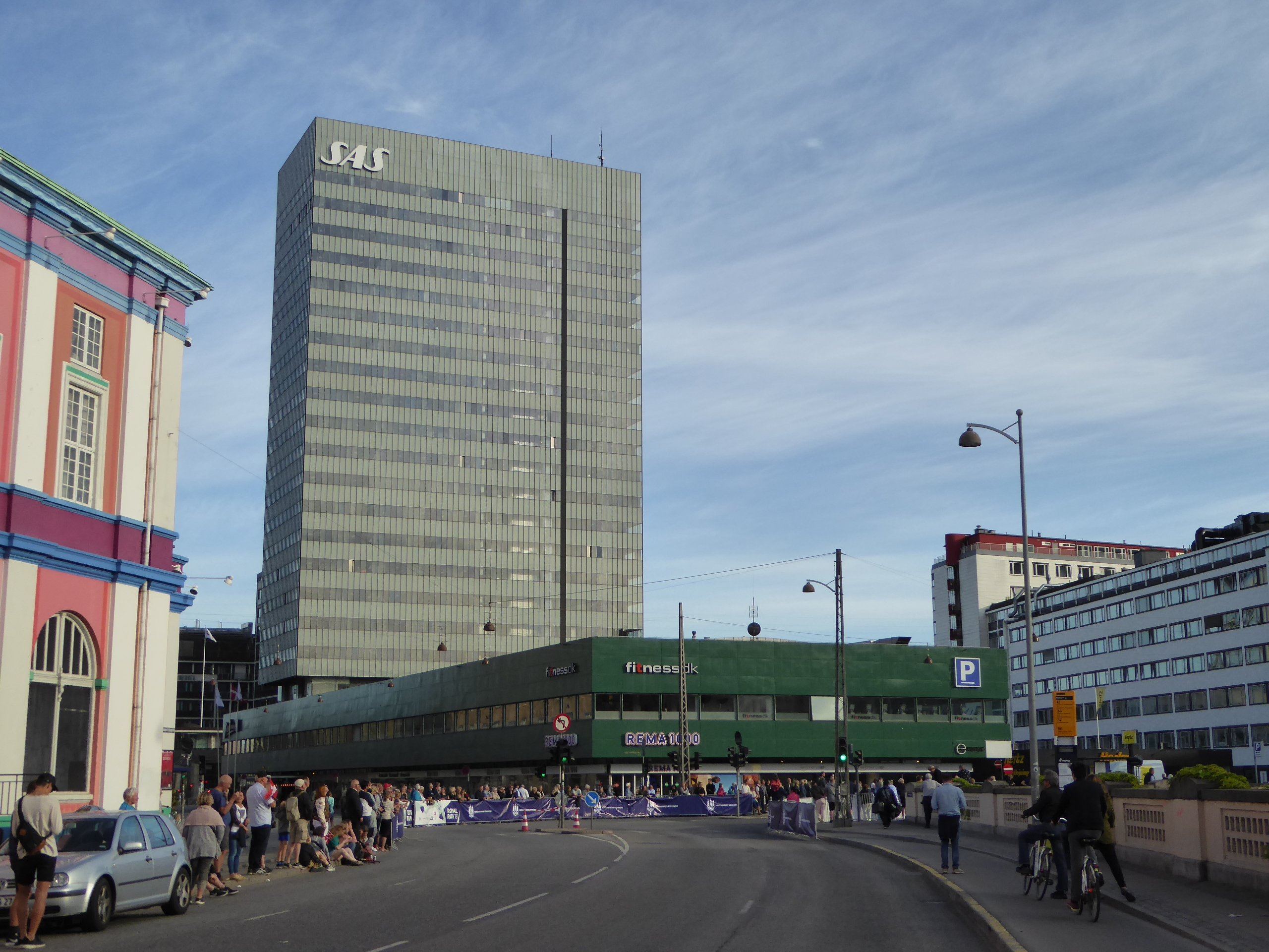 Radisson Collection Hotel, Royal Copenhagen seen from Hammerichsgade in Copenhagen.